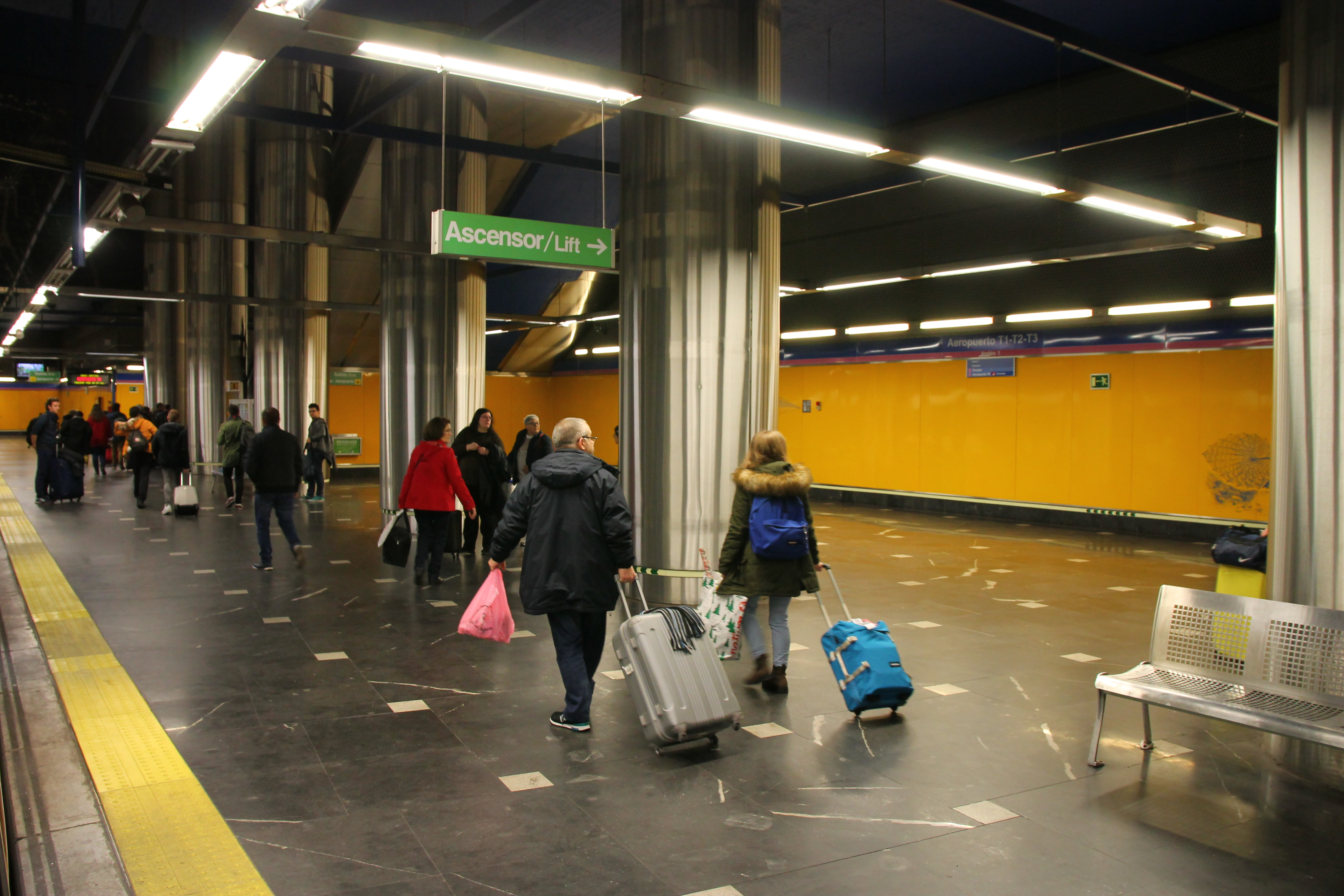 Aeropuerto T1-T2-T3 station. Madrid Metro.